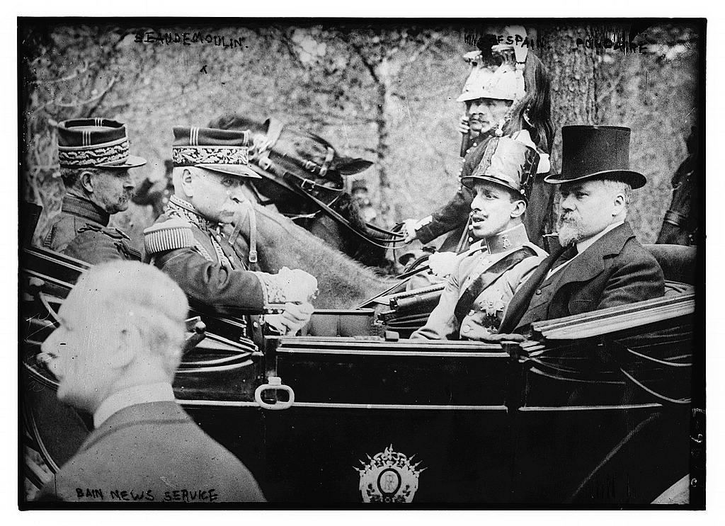 Photo shows Antoine Beaudemoulin (1857-1927), head of the French president's millitary staff; King Alfonso XIII of Spain; and Raymond Poincare, President of France, riding in a carriage in Paris, France.